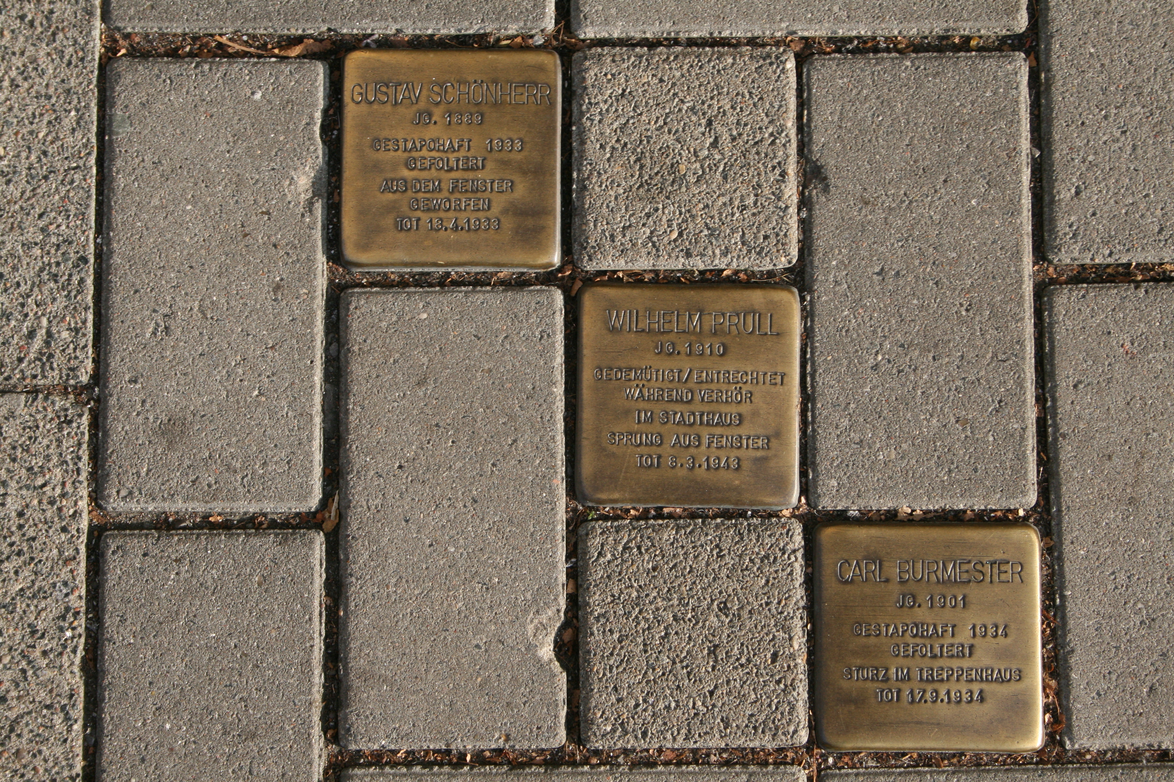 Stolpersteine for the Gestapo-victims Gustav Schönherr (1889–1933), Wilhelm Prull (1910–1943) and Carl Burmester (1901–1934) in front of the Stadthaus Hamburg